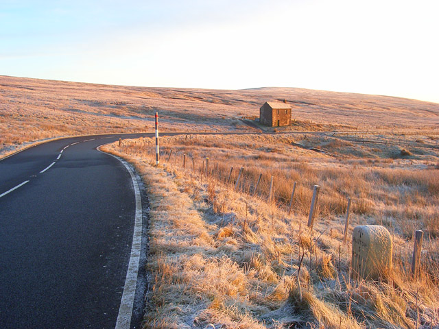 The A686 below Hartside The road here is on a long gradual descent into the South Tyne valley. The road, which connects Penrith and Haydon Bridge, is beloved of bikers and was named one of the greatest drives in the country by the AA. Cumbria County Council are responsible for keeping the Cumbrian part free of snow and ice but do not grit the section between Melmerby and Alston after sunset due to safety concerns.